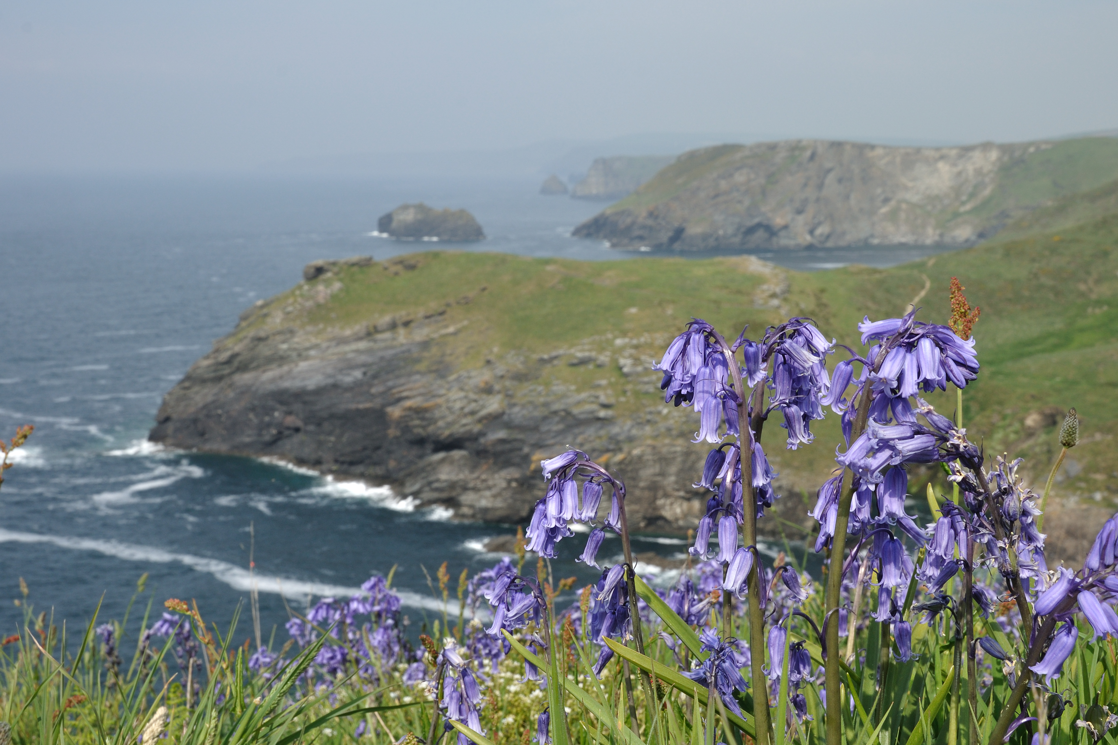 Bluebells on Tintagel Castle